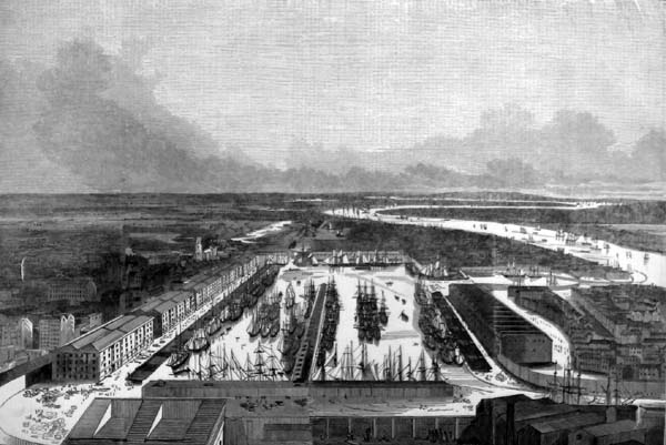 A birdseye view of London Docks published in the Illustrated London News in 1845.